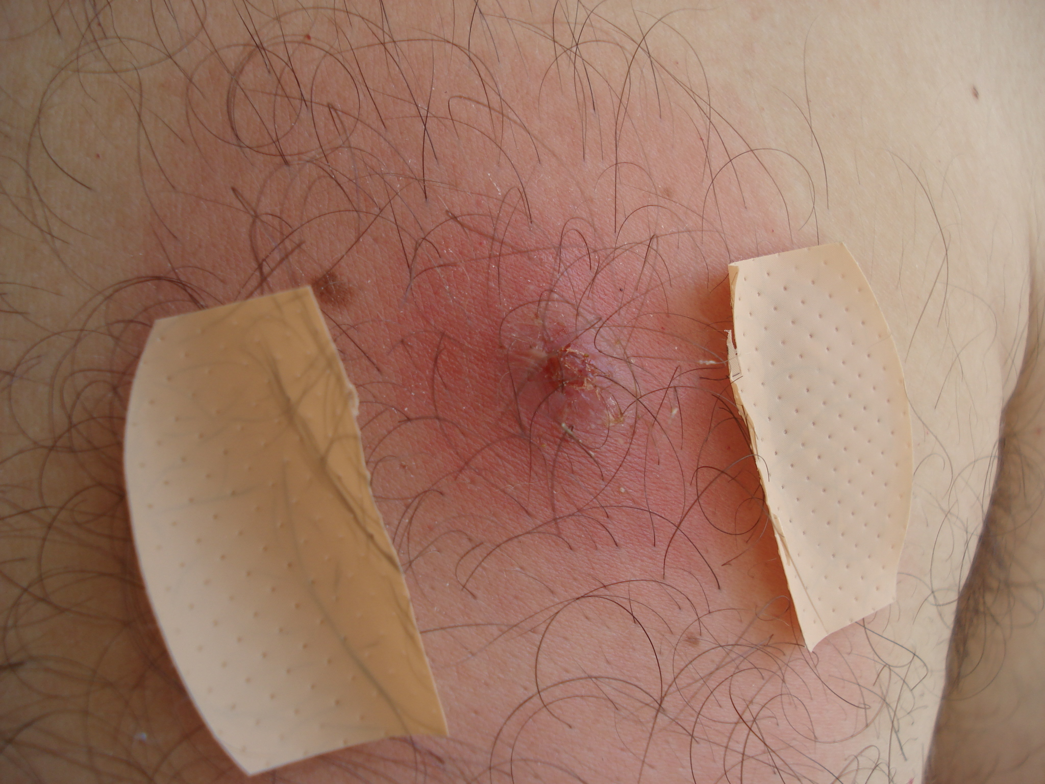 furuncle